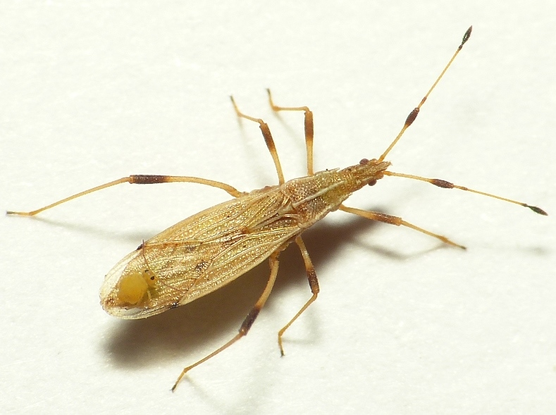 Berytinus crassipes. Location: The Netherlands - Ede - Ginkelsche Zand